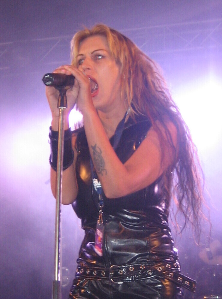 Helena Iren Michaelsen, the singer of Imperia, singing at Tuska Open Air Metal Festival 2007.